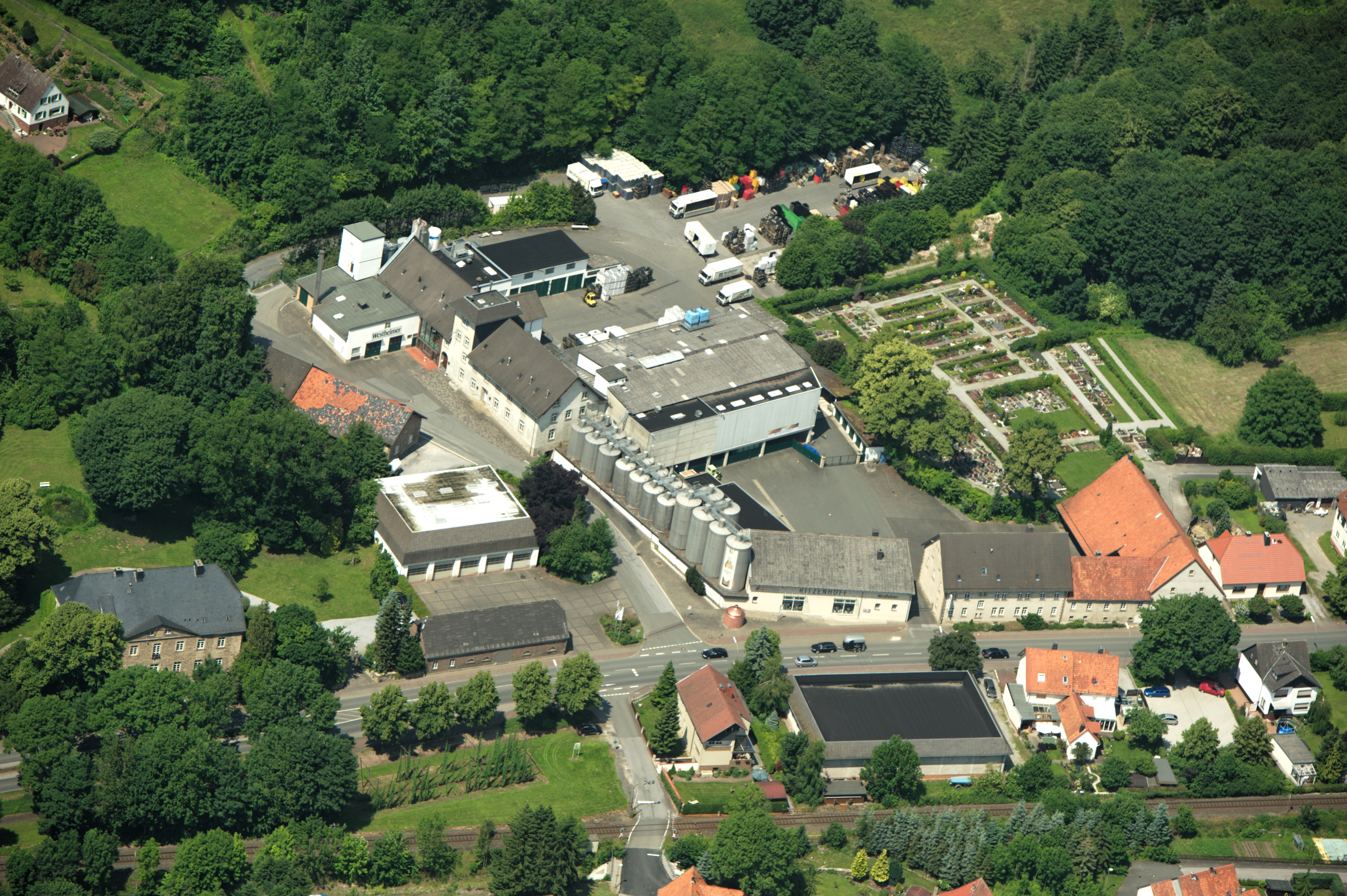 Fotoflug Sauerland-Ost, Stolberg’sche Brauerei in Westheim The making of this document was supported by the Community-Budget of Wikimedia Germany.